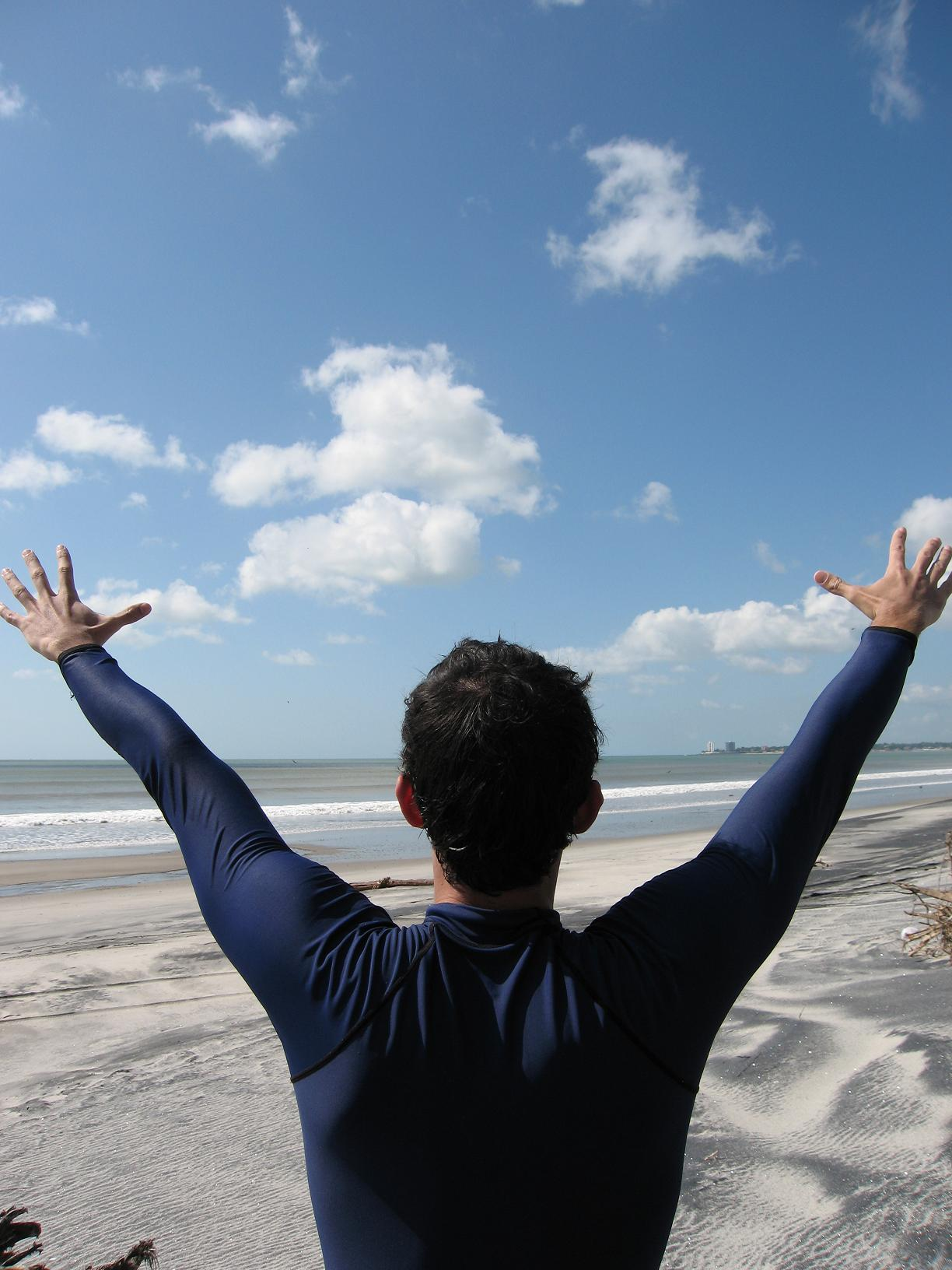 Rashguard Malibu Beach, Pacific Ocean. Panama, Republic of Panama